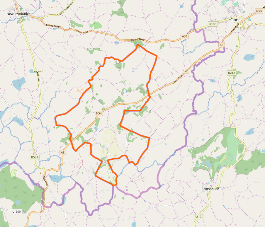 Map of part of counties Monaghan and Fermanagh, showing boundary of Drummully electoral division in red and rest of Ireland-UK border in violet. This map may be incomplete, and may contain errors. Don't rely solely on it for navigation.